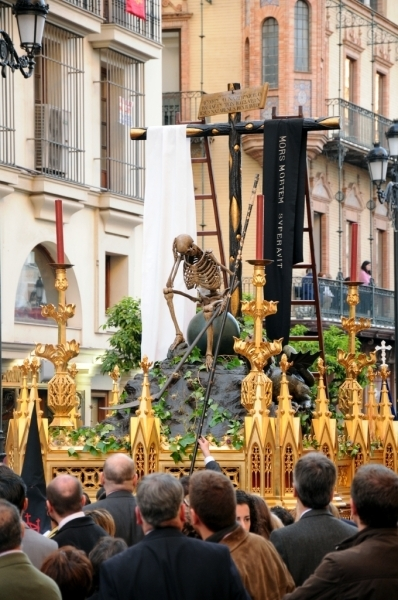 semana santa sevilla